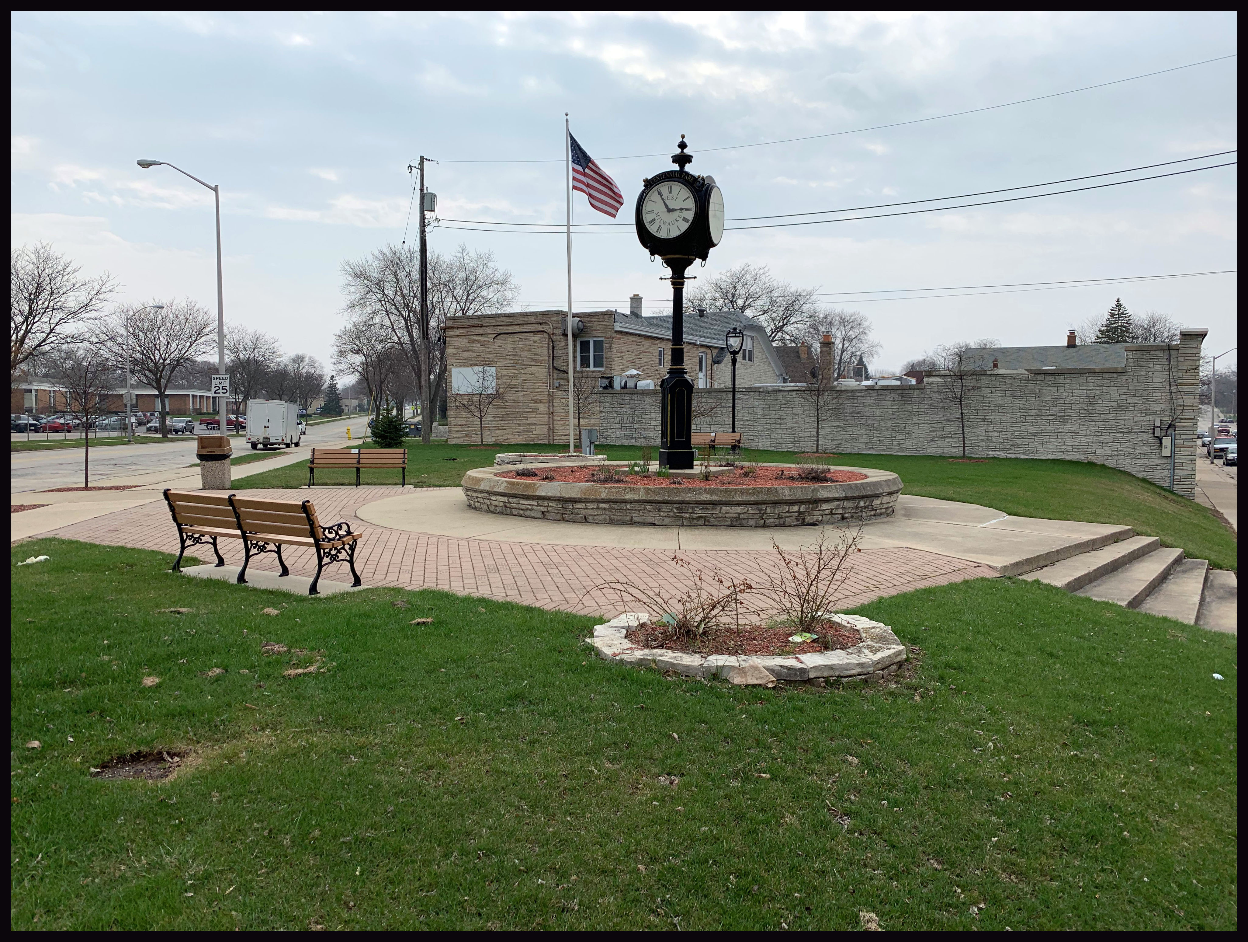 Centennial Park West Milwaukee